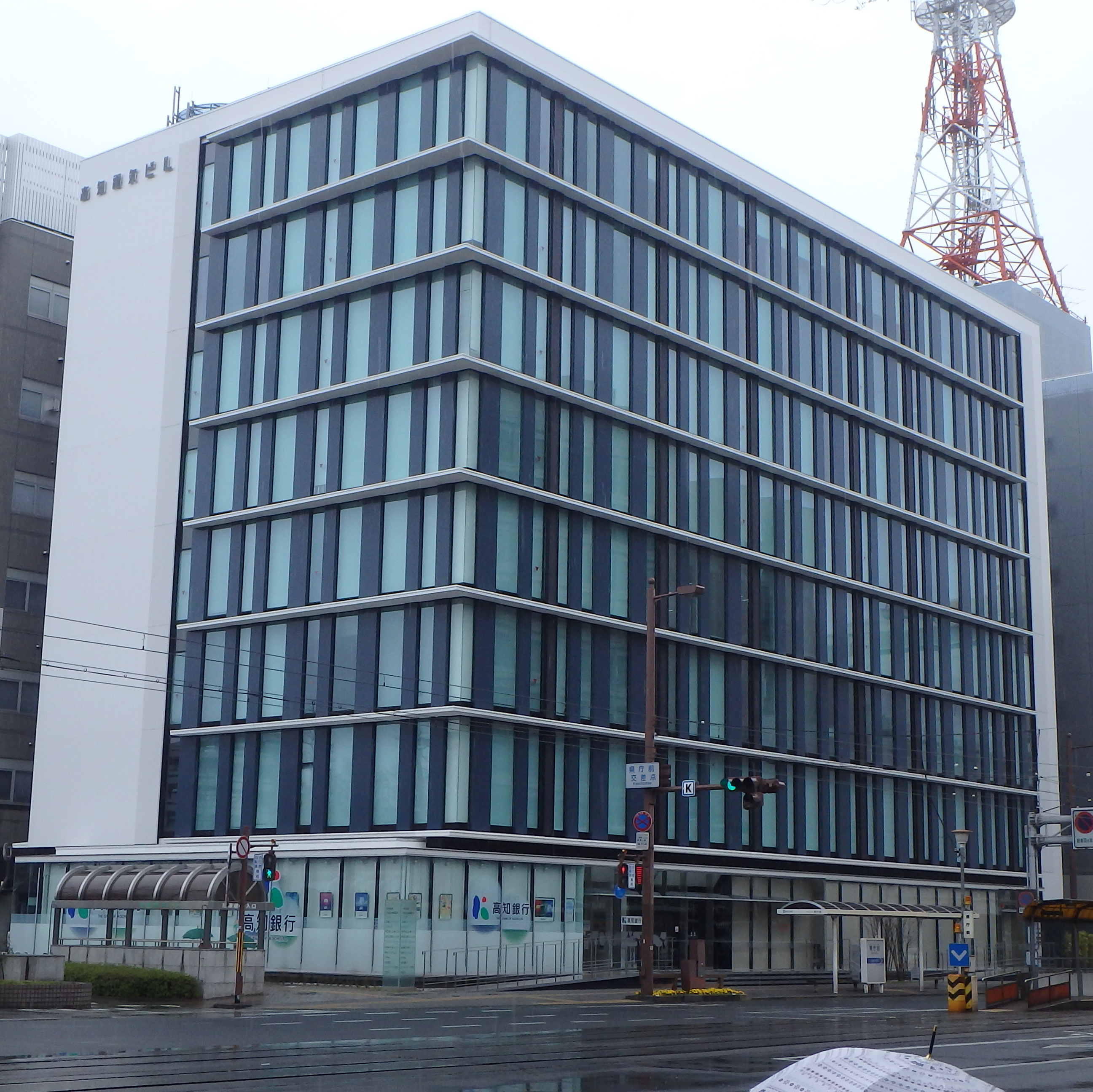 Kochi Denki building,Kochi prefecture,Japan